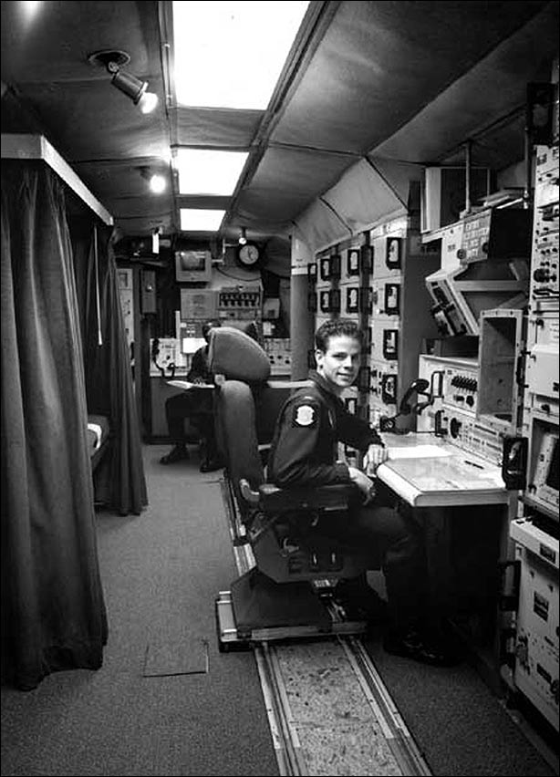 Inside Launch Control Center, 1991. shows Command Data Buffer configuration